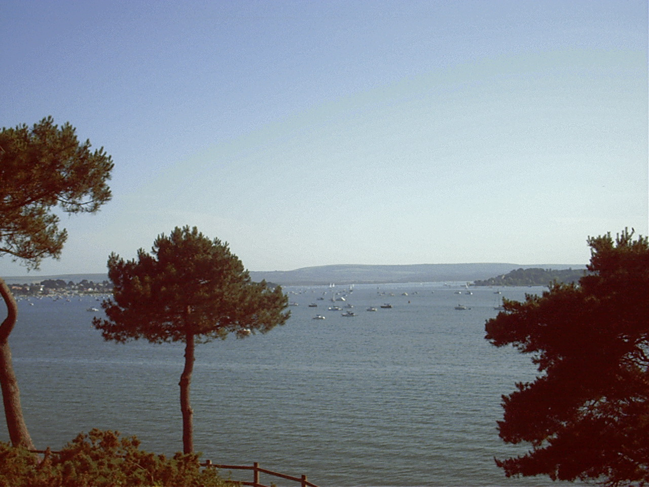 View across Poole Harbour, Purbecks in the distance (middle), sandbanks to the left and the end of Brownsea Island, taken June 2003